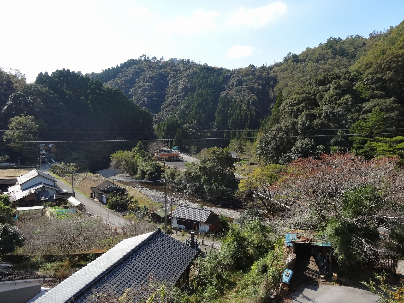 Sotaro District, Shigeoka, Ume, Saiki City, Oita Prefecture, Japan.